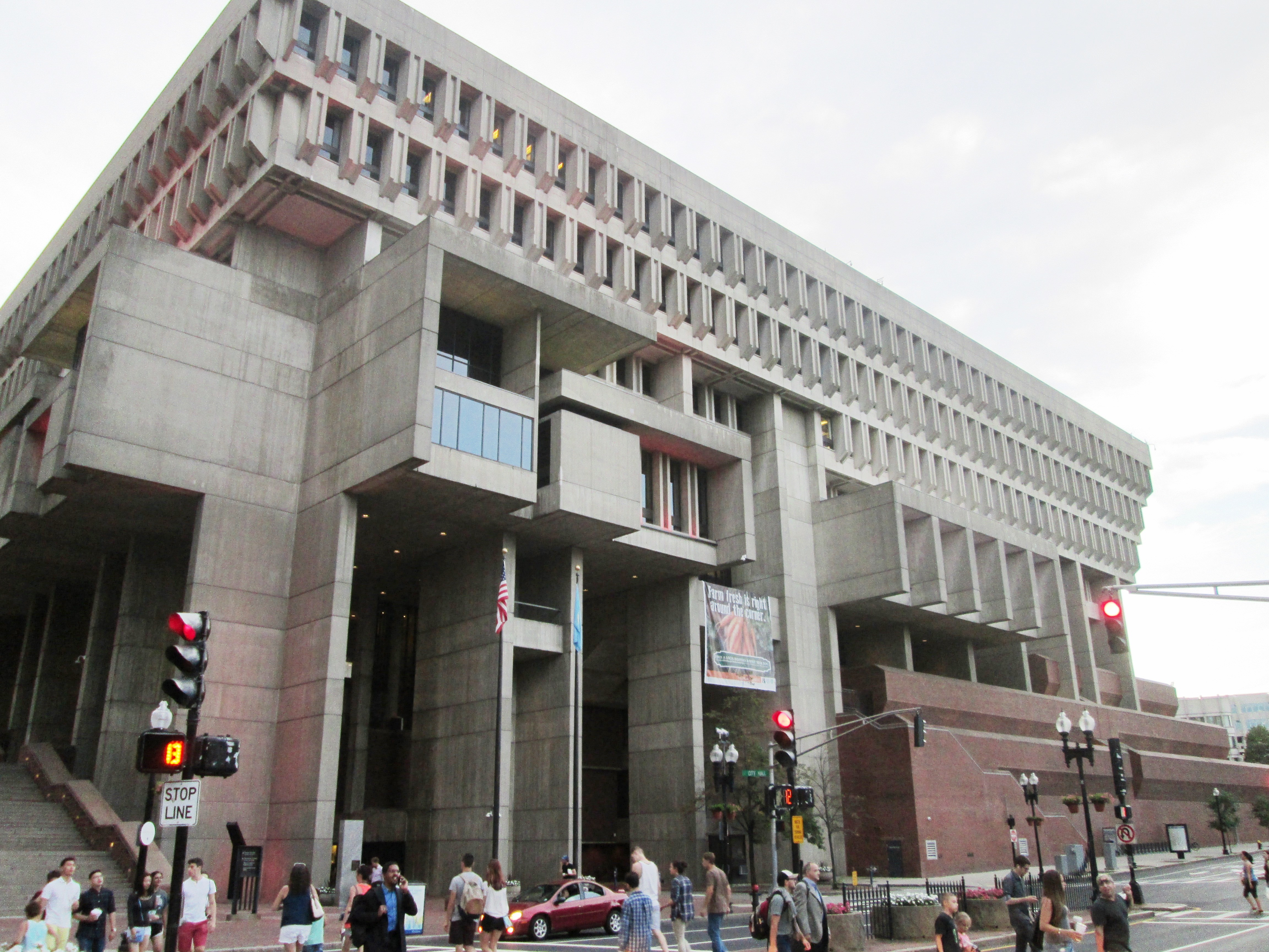 The fourth and current Boston City Hall, located at 1 City Hall Square in Government Center, Boston, Massachusetts, opened in 1969 and was designed in the Brutalist style by the architecture firms of Kallmann McKinnell & Knowles with Campbell, Aldrich & Nulty. The engineering was by Lemessurier Associates.